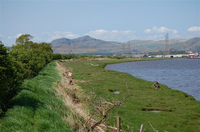 River bank. This is the west bank of the Forth near Dunmore, looking towards South Alloa. Pylons of the two Forth power line crossings between South Alloa and Alloa in the background.